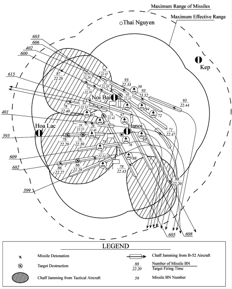 AAD and jamming over Hanoi and Noi Bai during Operation Linebacker II (Map 3.)